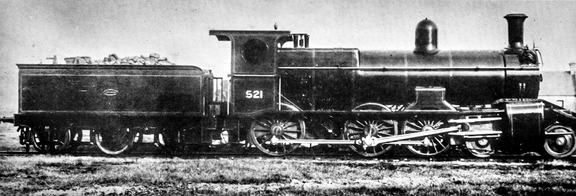 NSWGR Class C32 Locomotive